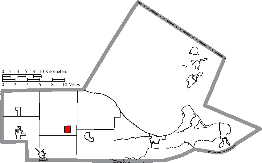 Map of the municipal and township boundaries of Ottawa County, Ohio, United States, as of the 2000 census, with the location of the village of Rocky Ridge highlighted. Township borders are shown only in unincorporated areas in order to differentiate incorporated and unincorporated areas more clearly.